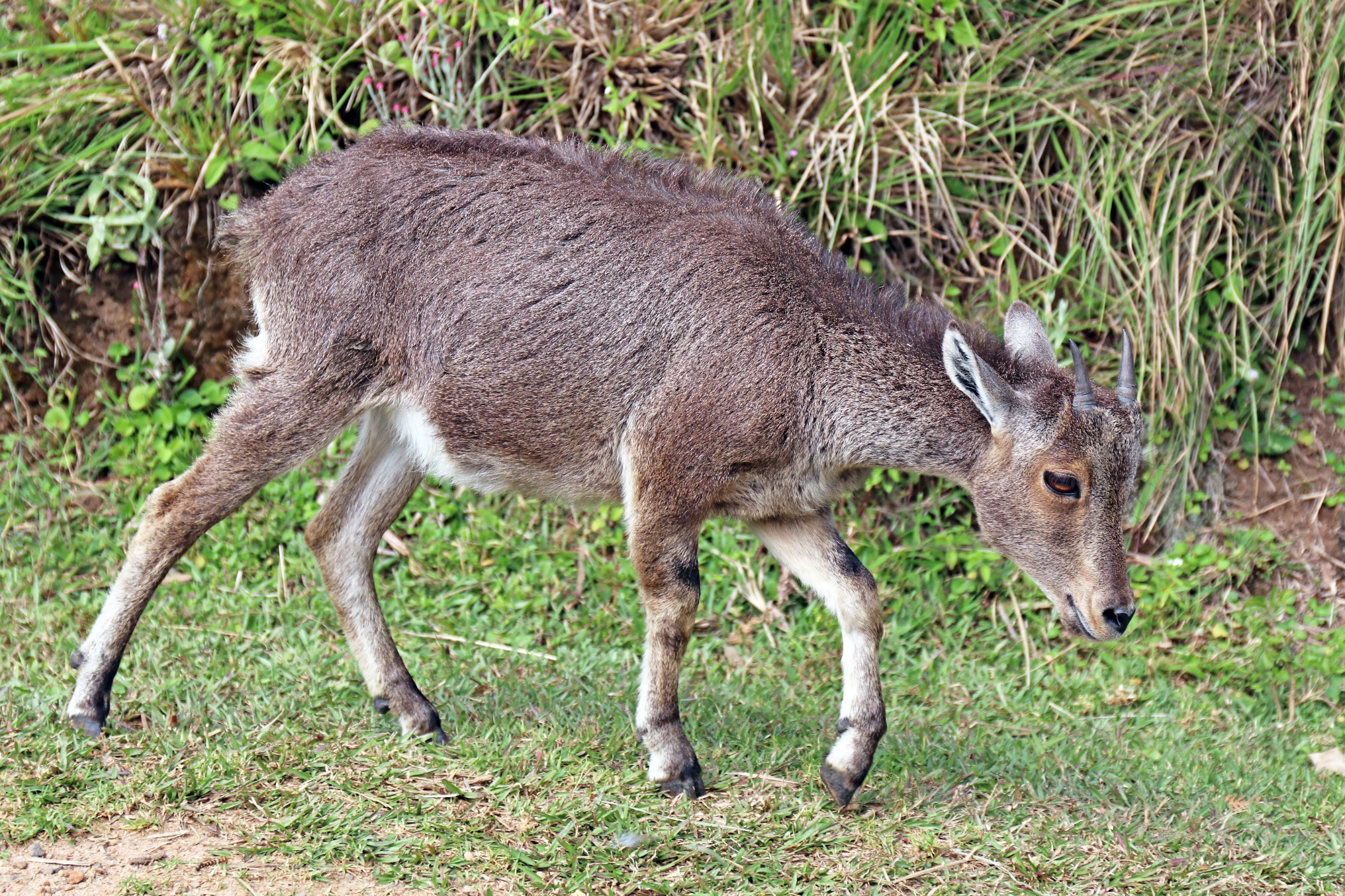 Nilgiri tahr (Nilgiritragus hylocrius) juvenile, Eravikulam National Park, Kerala, India